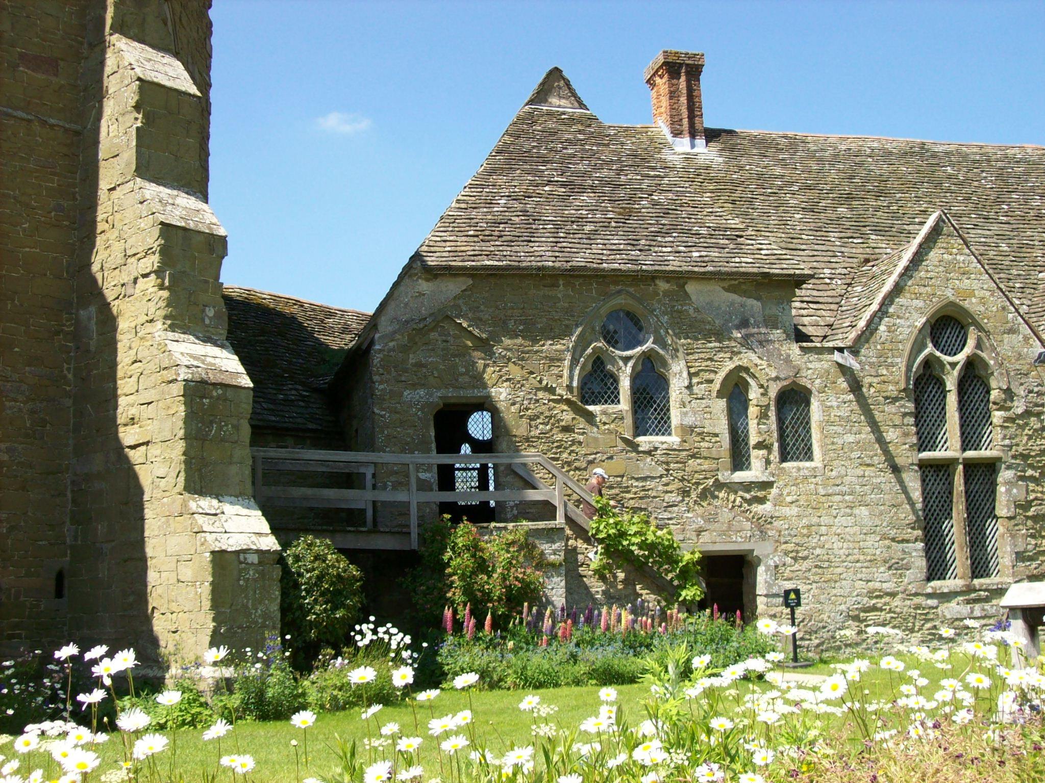 The Solar, Stokesay Castle